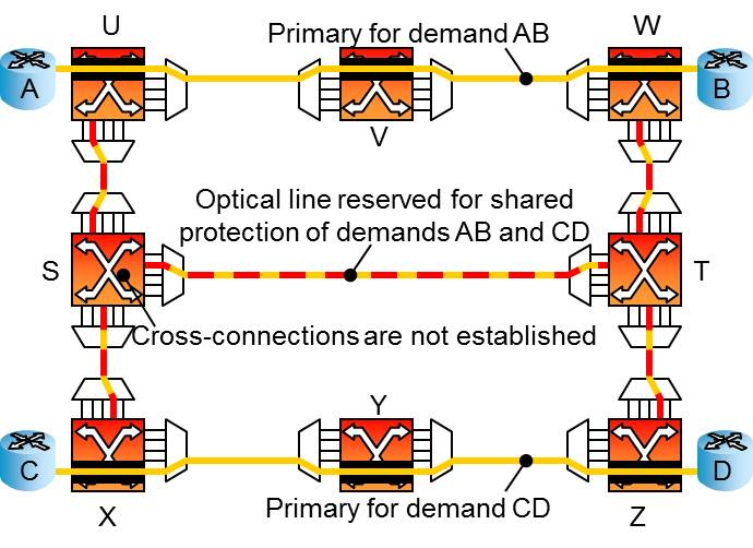 Shared Backup Path Protection - before failure